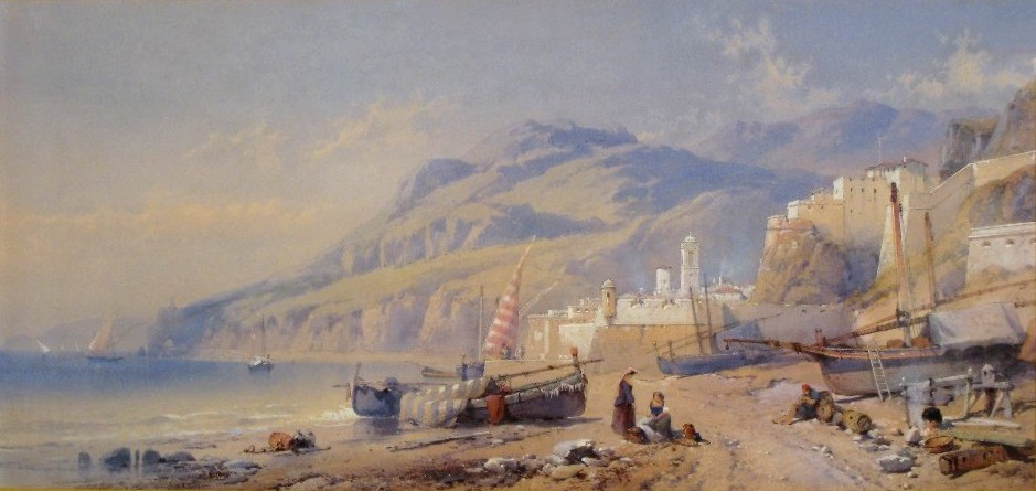 "On the Coast near Genoa", 13 x 26 1/2in (33.1 x 67.3cm